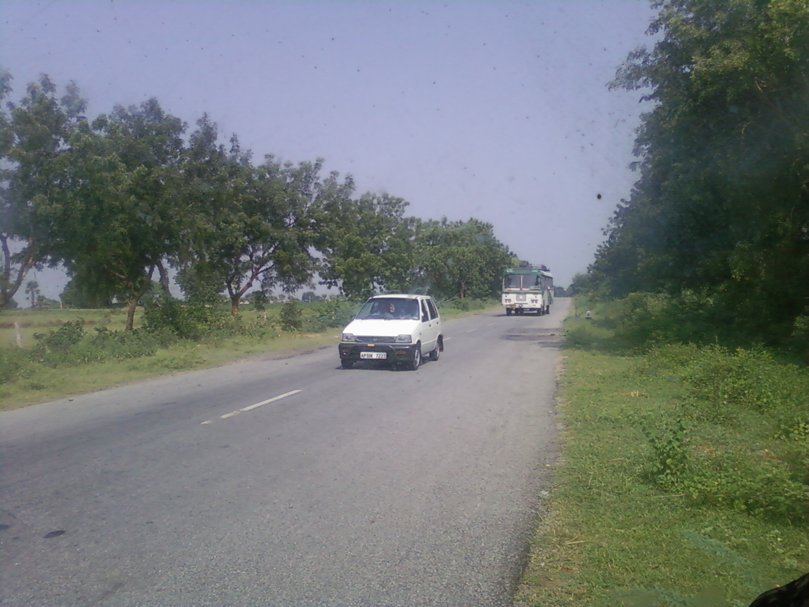 This picture was taken in the outskirts of Suryapet. The road connects Suryapet with Kothagudam and Bhadrachalam.